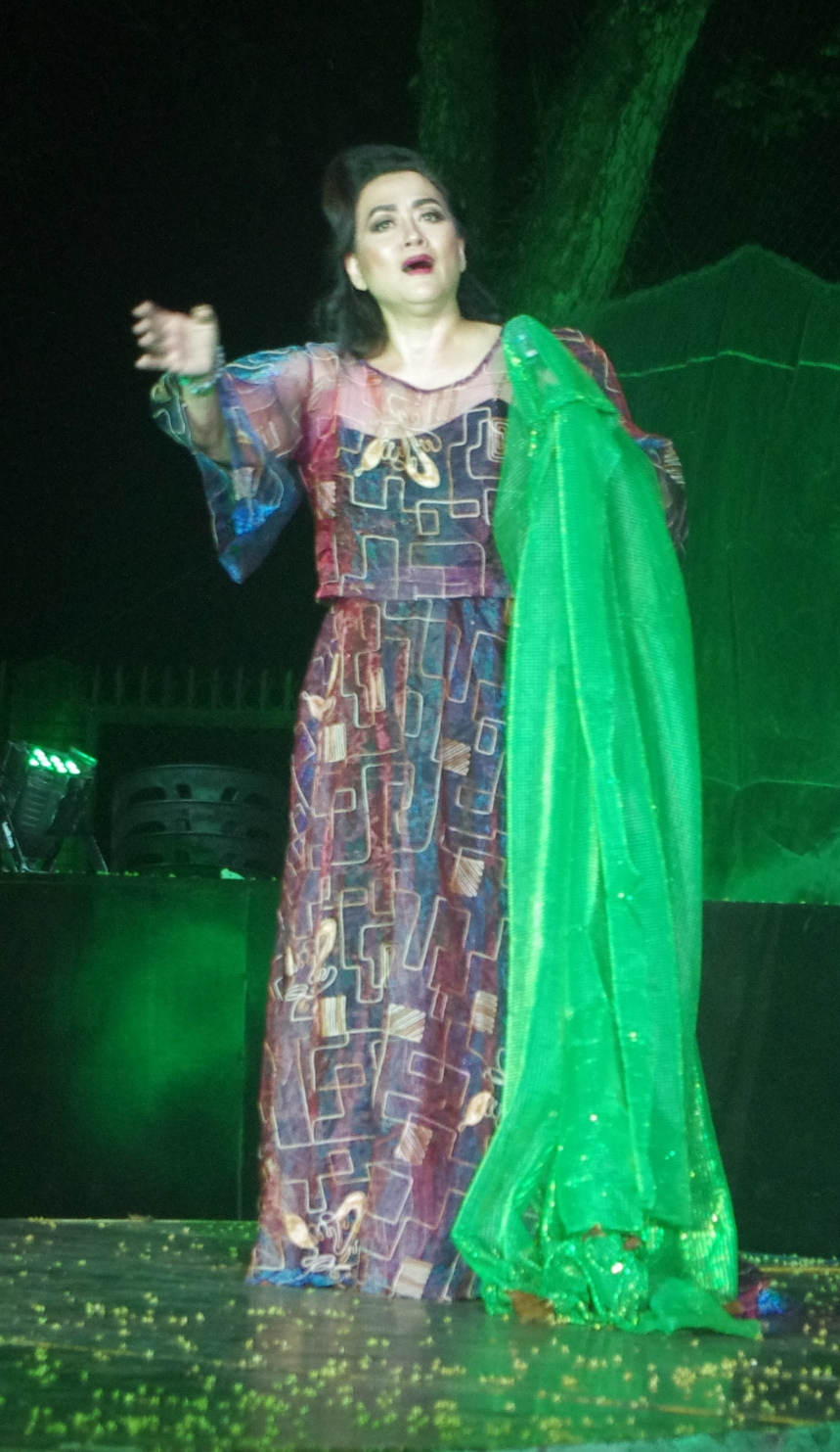 Performance during the staging of Lunop han Dughan at University of the Philippines Visayas Tacloban College in 2019